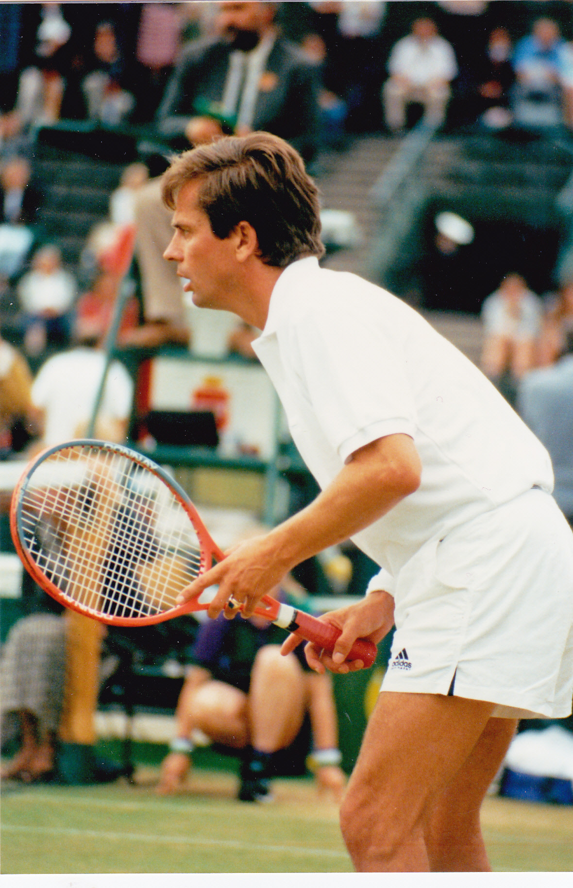 Erik Van Dillen Wimbldeon circa 1990